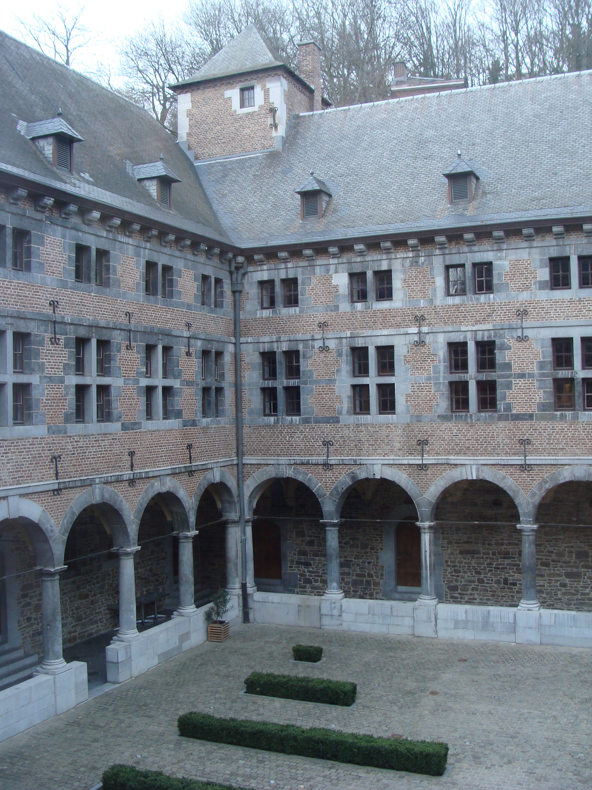 Museum of Walloon Life in Liège, Wallonia, Belgium.